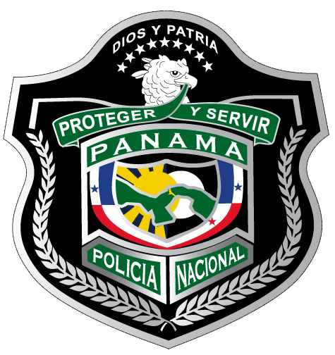 National Police of Panama Logo adopted in 2007